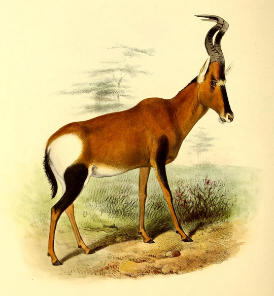 Illustration of Red hartebeest